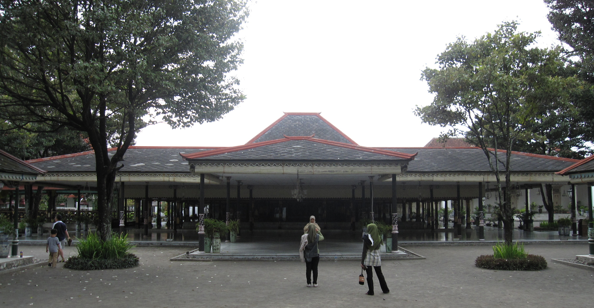 Kraton of Yogyakarta, Indonesia